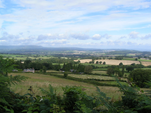 View from Dorstone hill